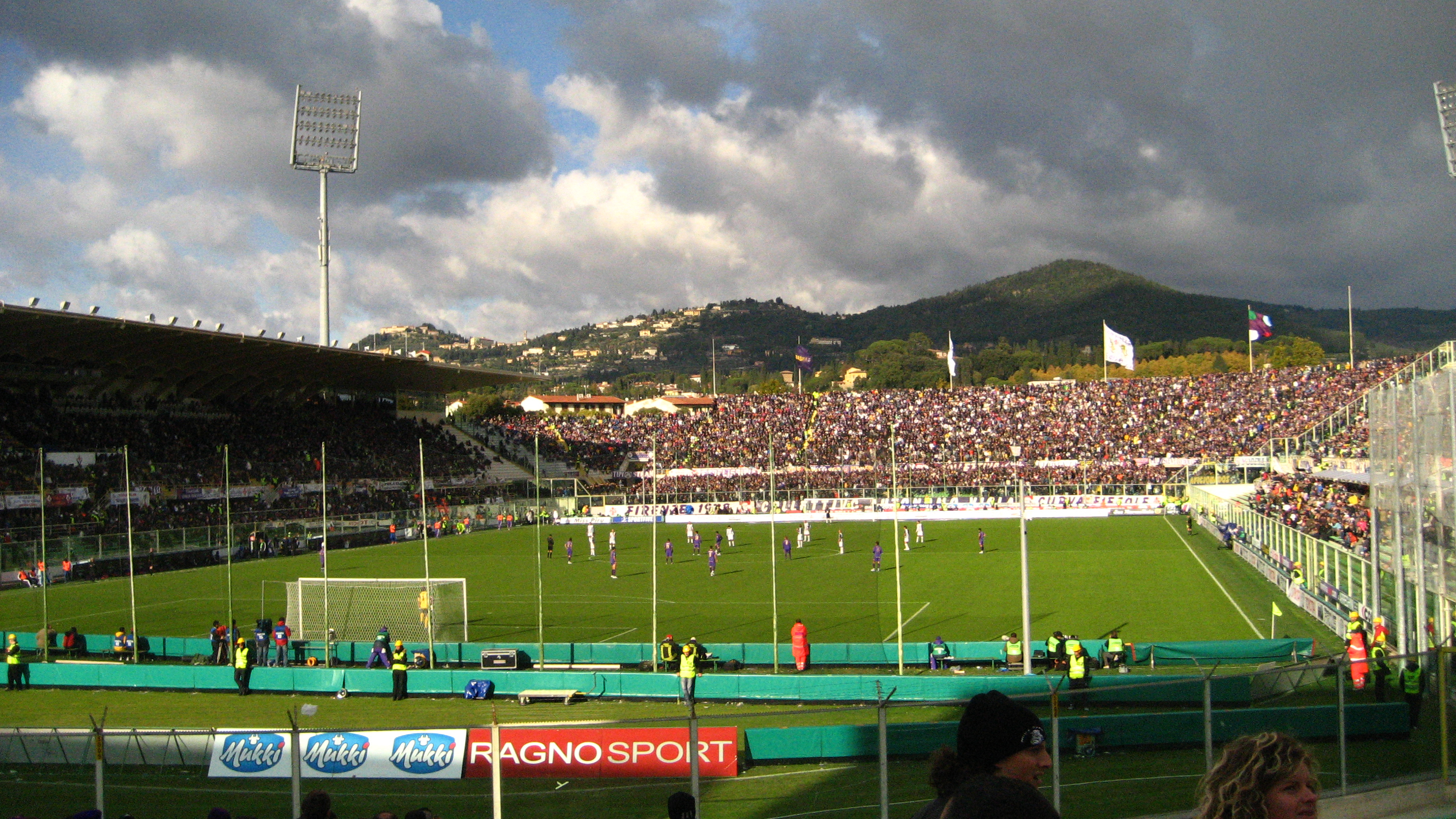 Firenze, Italy. 2007